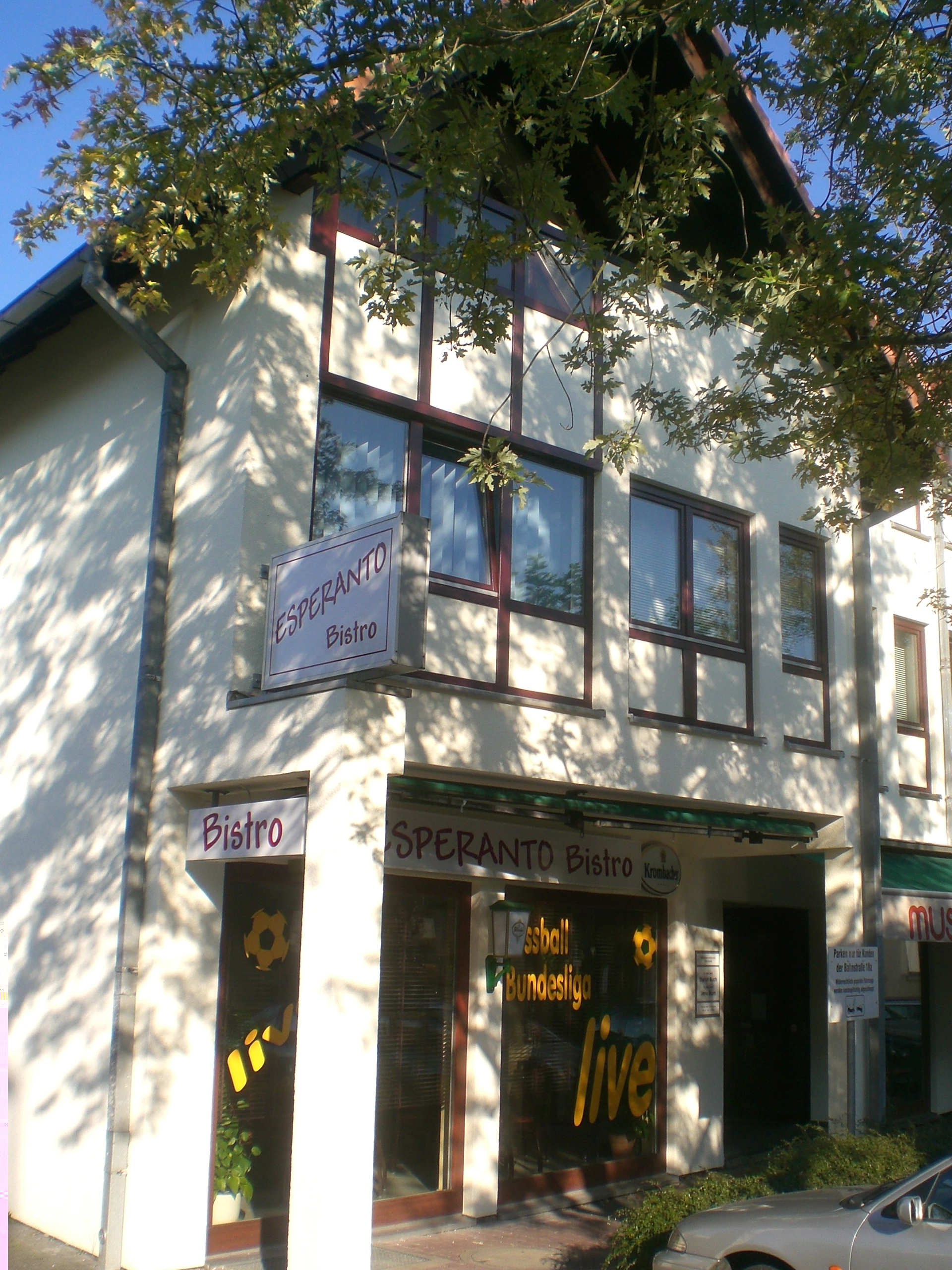 Bistro "Esperanto" in Kelkheim (Taunus)